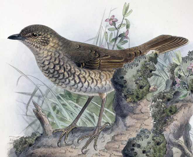 Illustration showing Kāmaʻo (Myadestes myadestinus) from Avifauna of Laysan By Lionel Walter Rothschild, 2nd Baron Rothschild (1868–1937) By John Gerrard Keulemans (1842-1912) (Dutch bird illustrator), which was issued from 1893-1900.